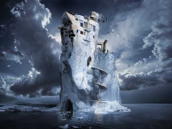 Ice Age Premonition or Infinite Iceberg Synthesizer